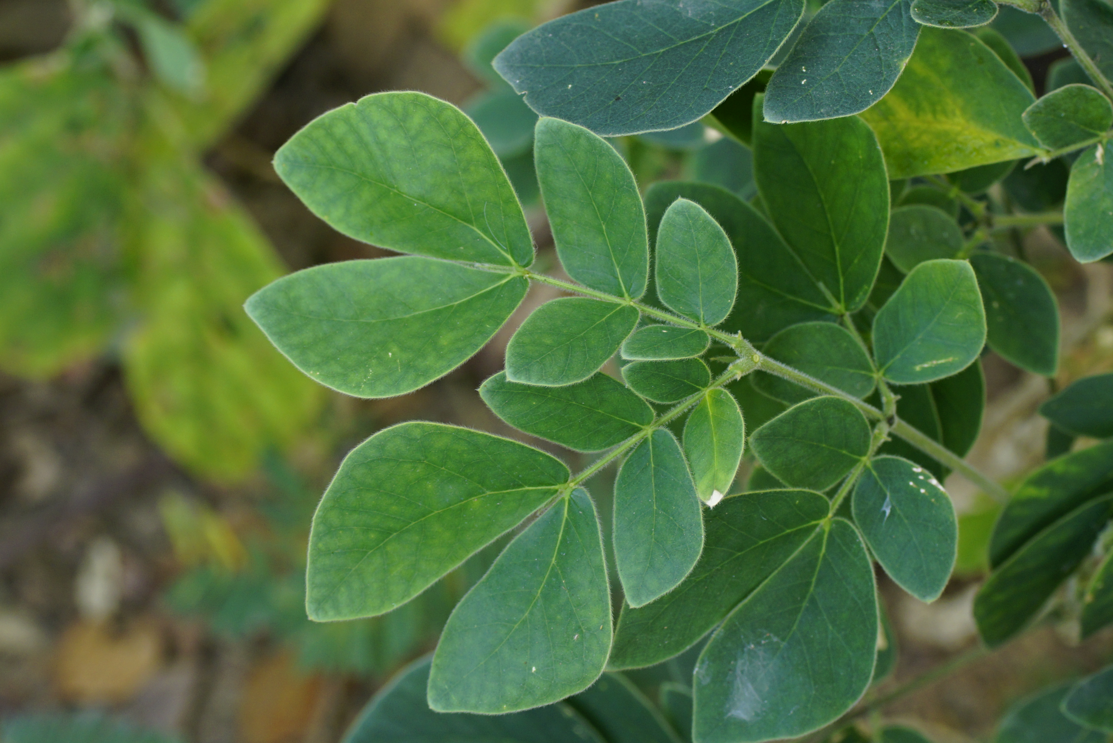 Flora of Kerala